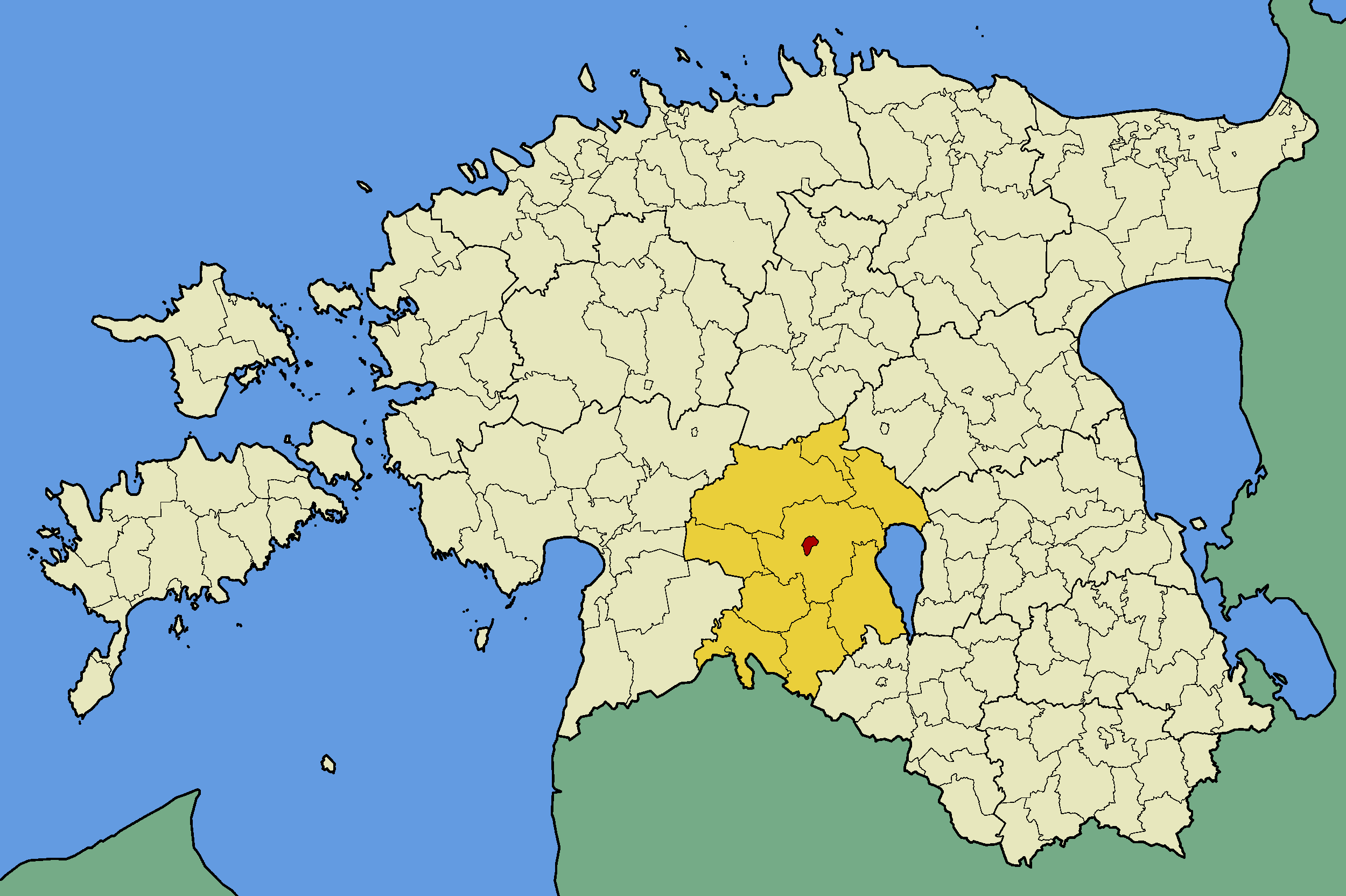 Map of Estonia with borders of municipalities (parishes). Viljandi county and Viljandi town municipality emphasized.